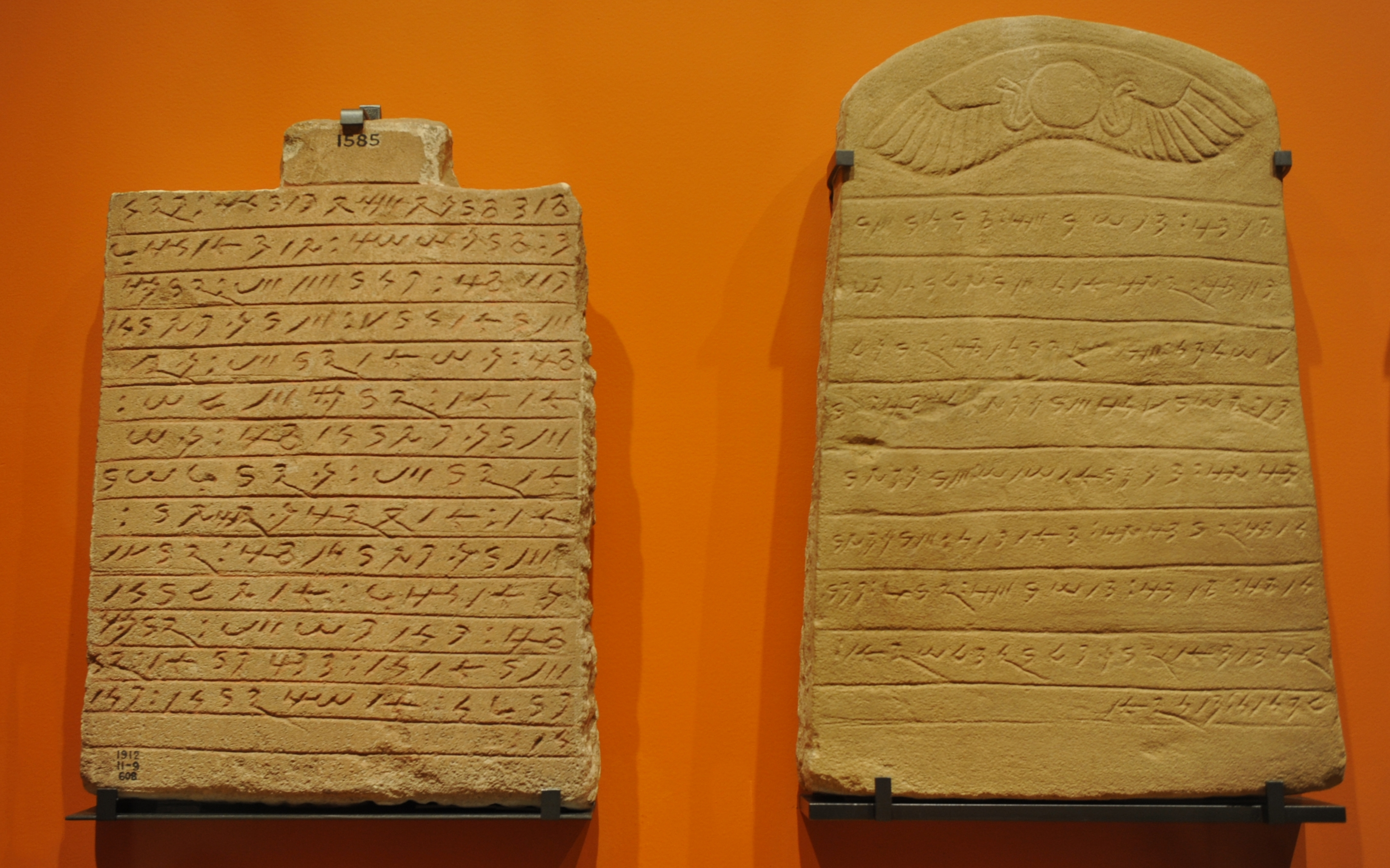 Meroitic cursive writing